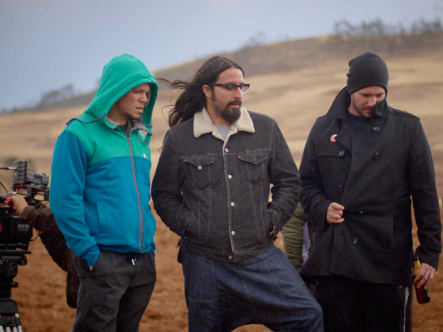 Rene Perez and Directors Jorge Carmona/ Milovan Radovic during the shooting of the music video of "Latinoamerica" (Cuzco, Perú 2011)